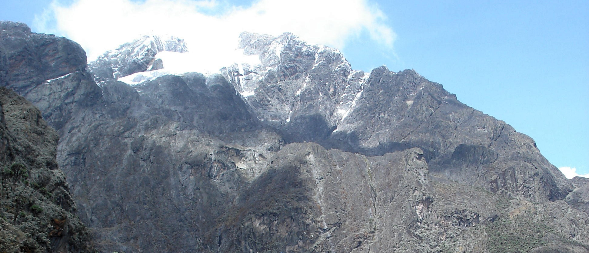 Margherita Peak (Mt. Stanley) seen from Uganda on Central Circuit (between Bujuku Hut and Scott Elliott Pass)